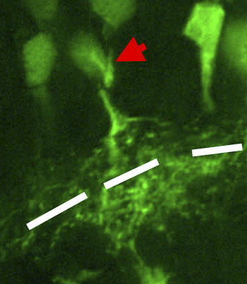 Xenopus retina. Red arrow points to amacrin cell. IPL is shown by dotted line.